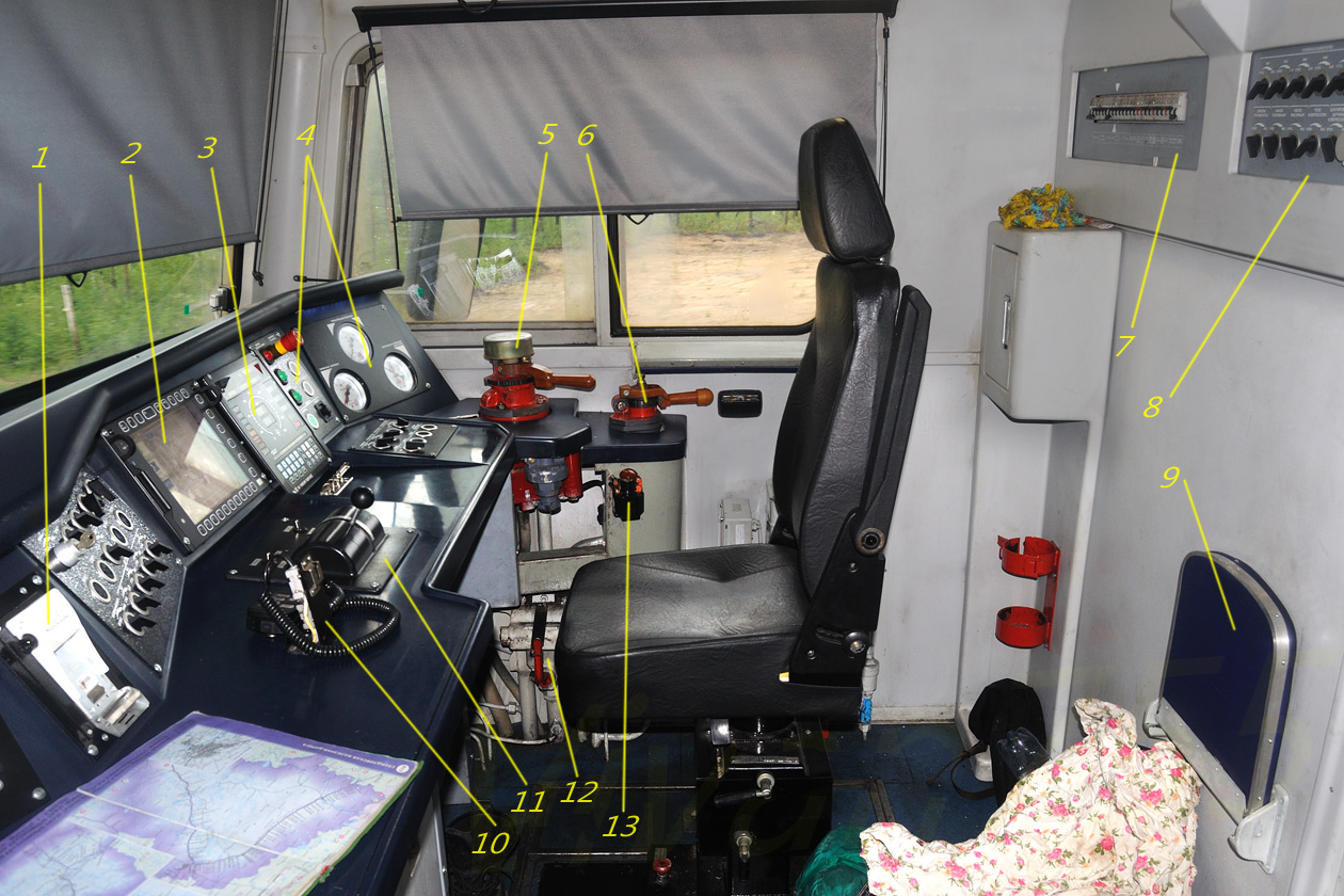 Cab of russian diesel loco 2TE116U. 1 — CLUB-U registration unit, 2 — MSU-TP display, 3 — CLUB-U indication block, 4 — brake gauges, 5 — 395 train brake valve, 6 — 254 locomotive brake valve, 7 — short-circuit breakers, 8 — traction motors cut-out, 9 — instructor seat, 10 — radio microphone, 11 — controller, 12 — 367 brake valves cut-out, 13 — vigilance button.